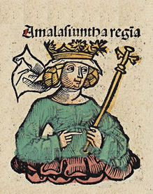 Woodcut from the Nuremberg Chronicle Amalasuntha, queen of the Ostrogoths in Italy in the 6th-century